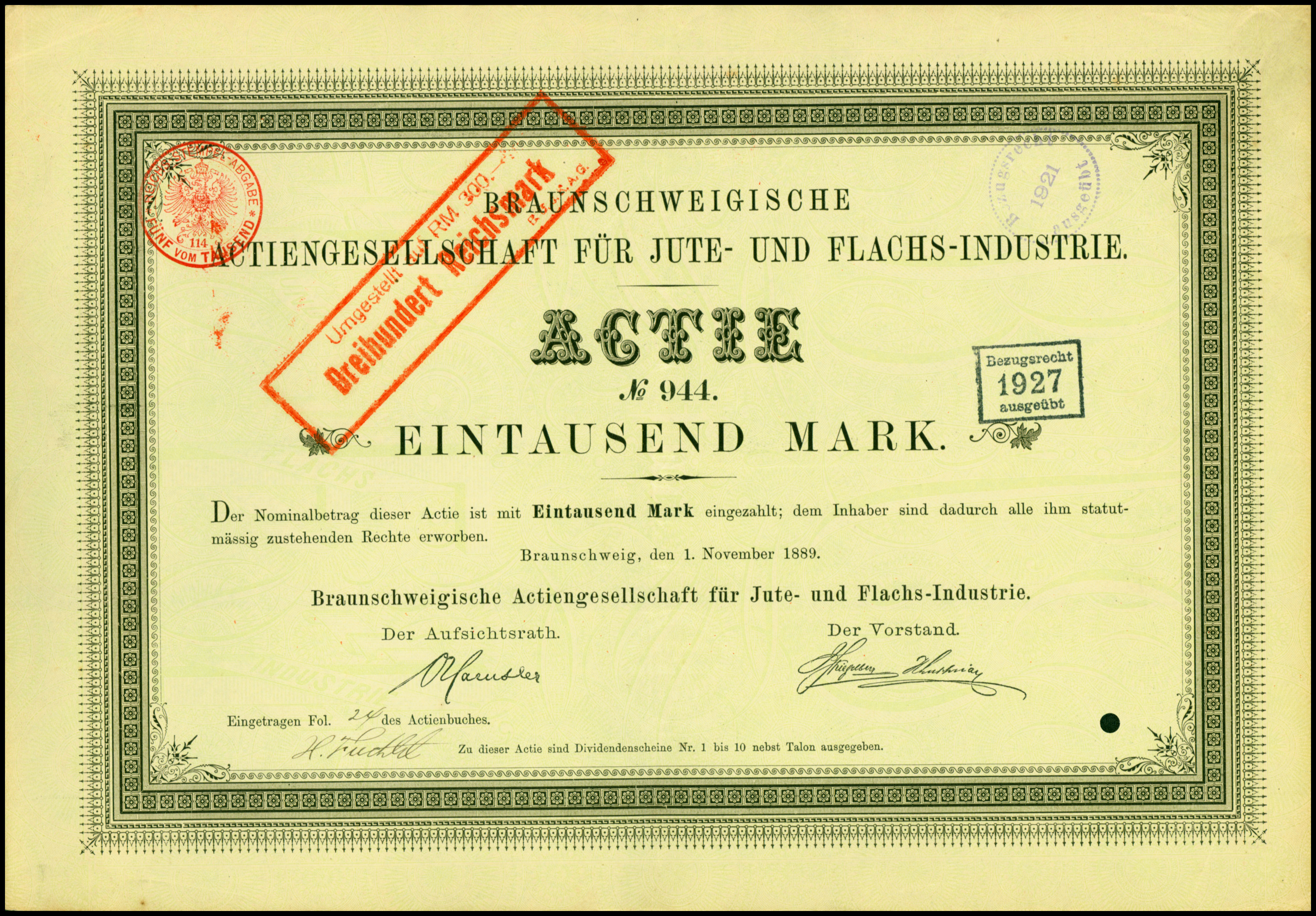 Share of the Braunschweiger AG für Jute- und Flachs-Industrie, issued 1. November 1889